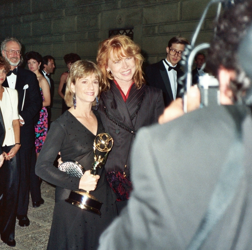 Actresses Holly Hunter and Amy Madigan at the 41st Primetime Emmy Awards, September 17, 1989